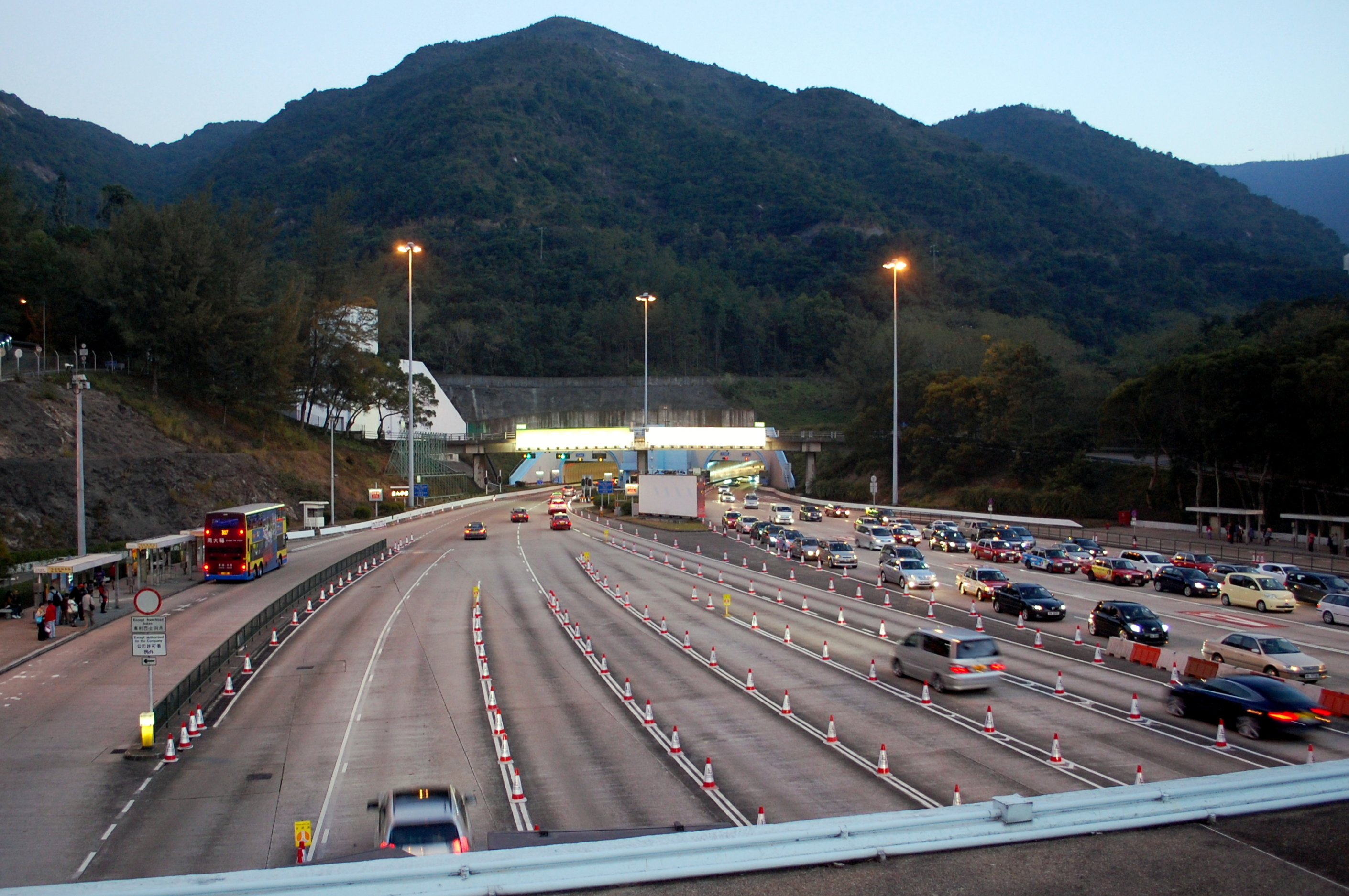 The Sha Tin entrance of the Tate's Cairn Tunnel, Hong Kong. Photographed from the footbridge above the toll booths. 中文（香港）: 大老山隧道沙田入口